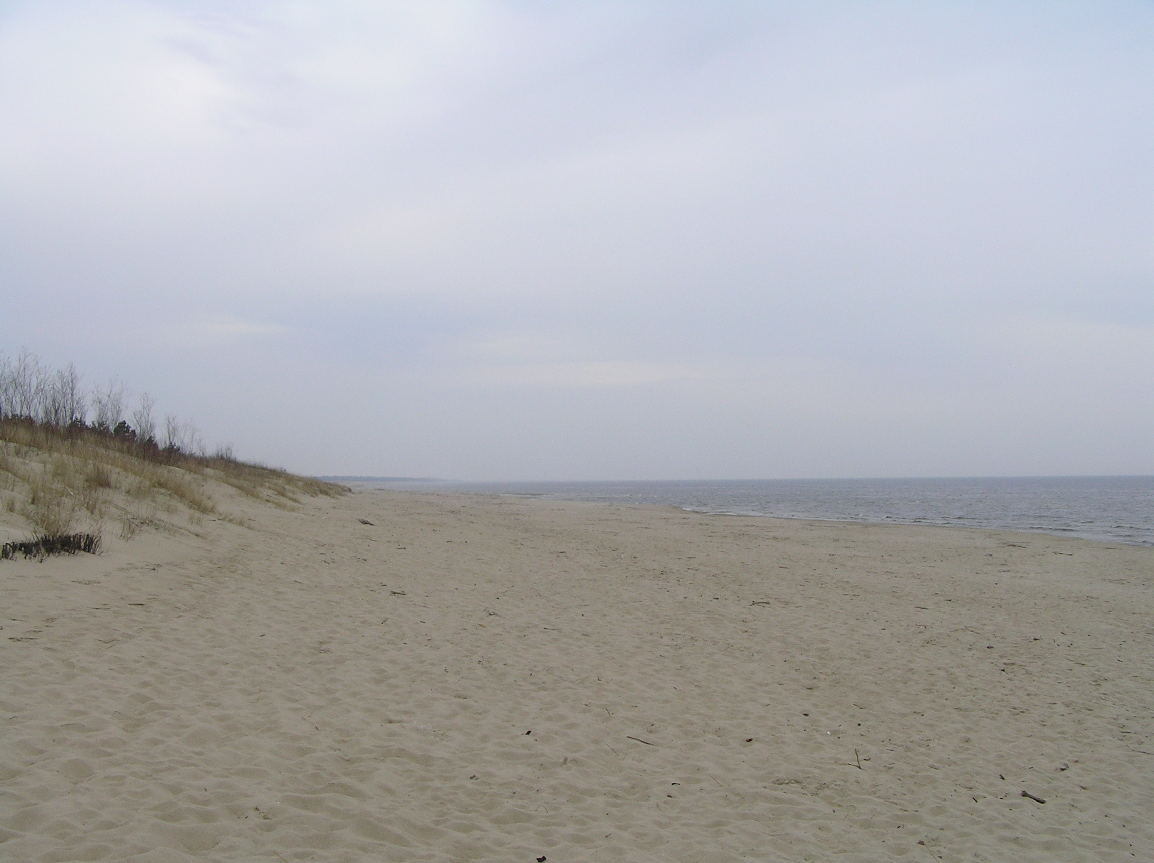 Beach in Sobieszewo, Gdańsk